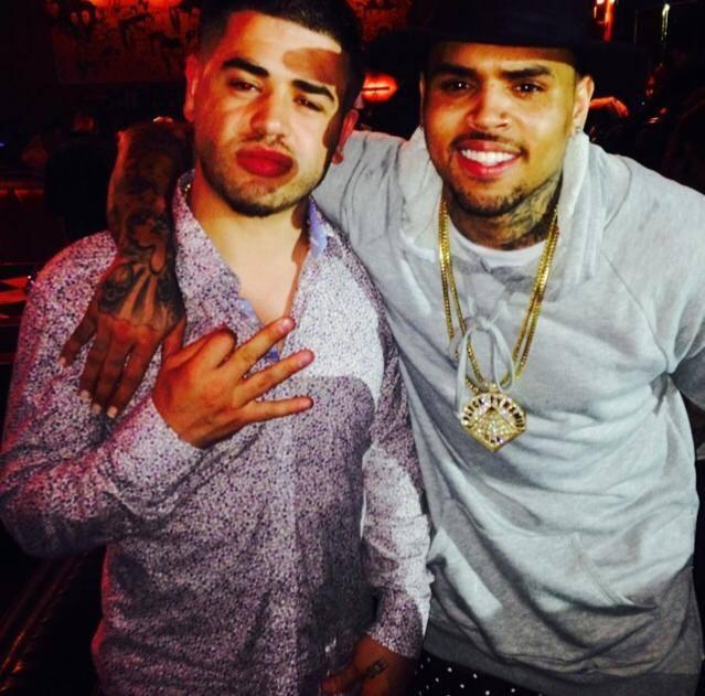 Noizy with Chris Brown in Los Angeles in 2014